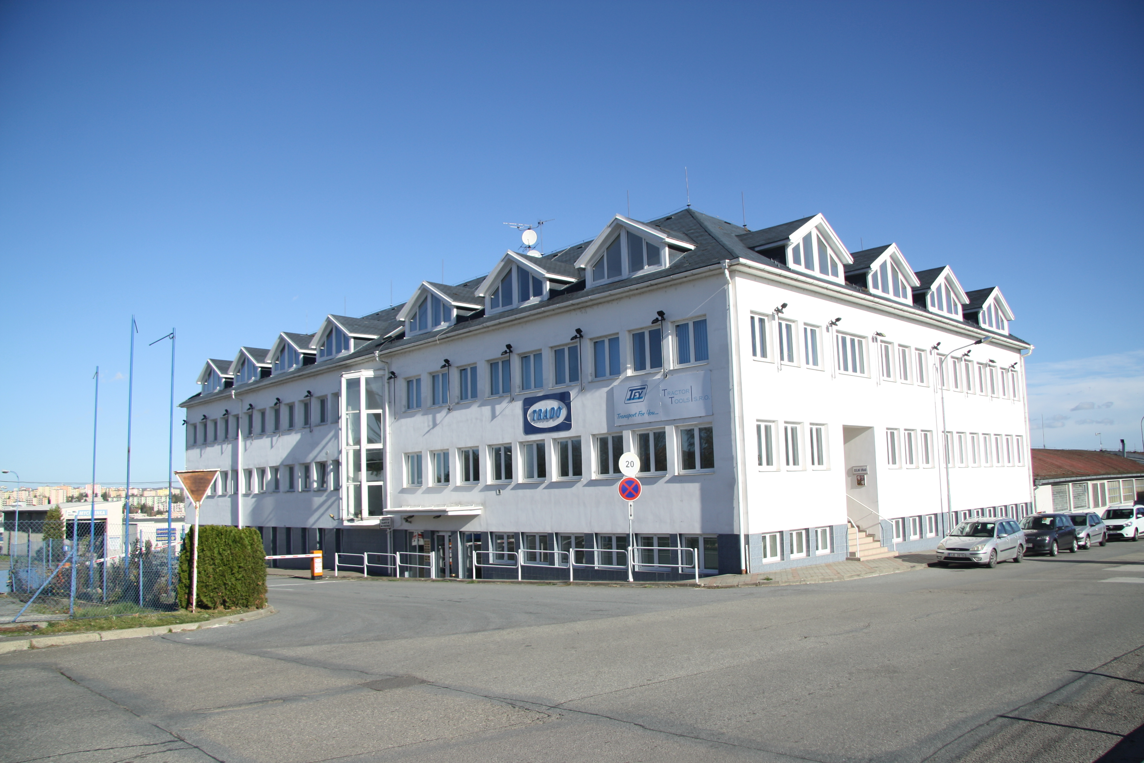 Trado building at Hrotovická street in Třebíč, Třebíč District.